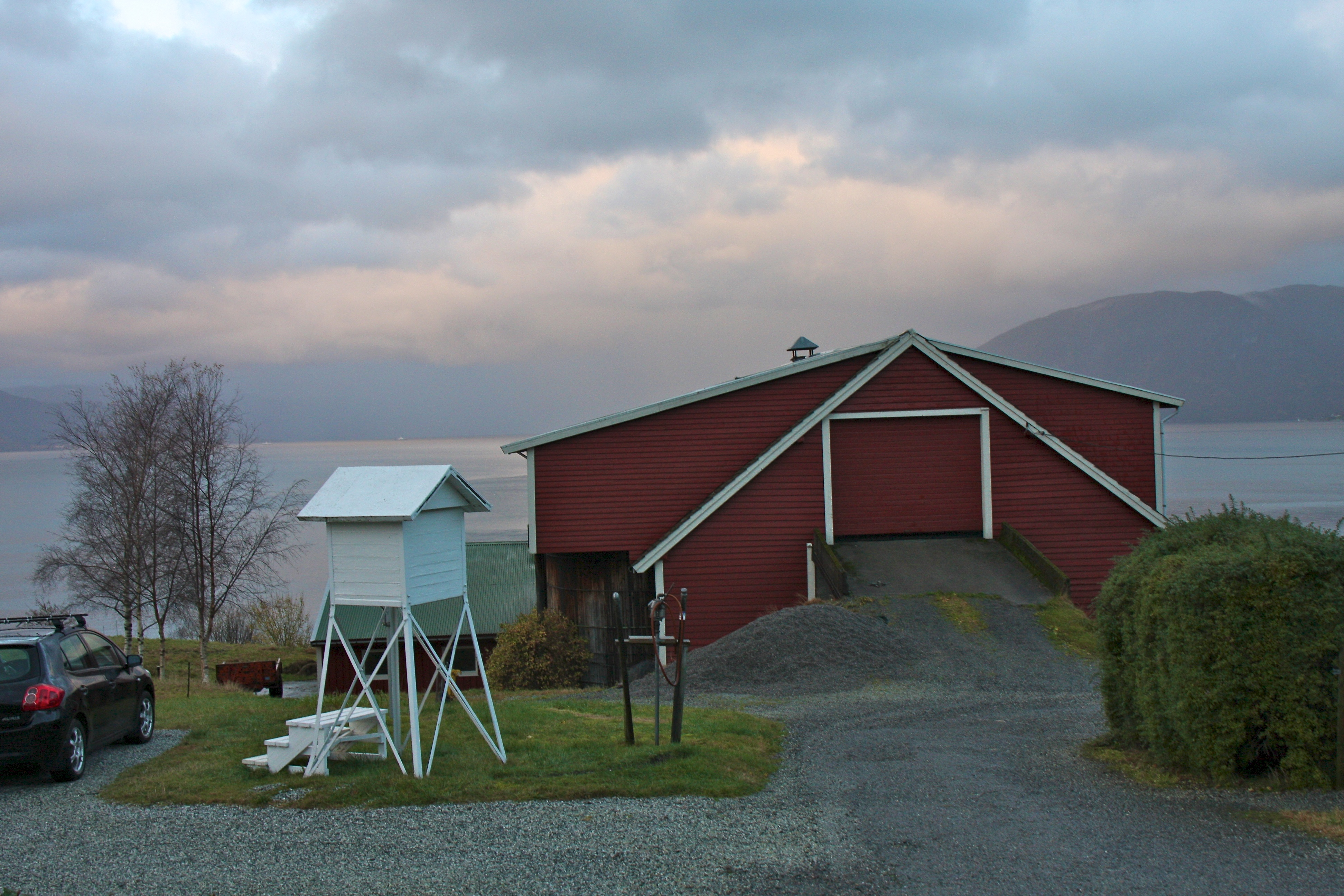 Takle in Gulen municipality, Norway.